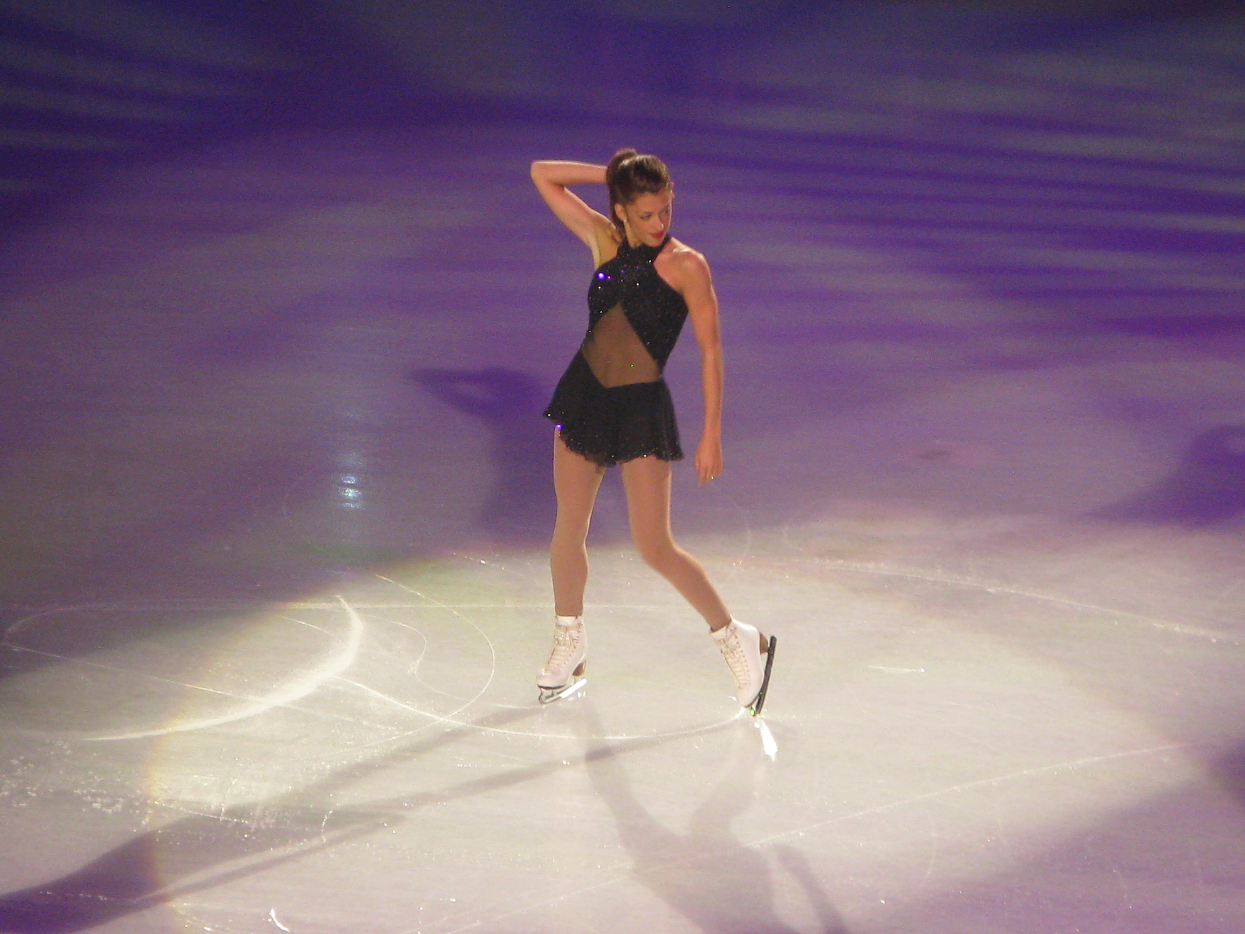 Skater Samantha Cesario at the figure skating gala exhibition of 2013 Trophée Éric Bompard in Bercy, Paris.